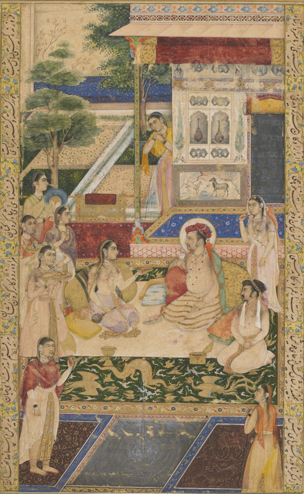 Jahangir and Prince Khurram Entertained by Nur Jahan ca. 1640-50 Mughal dynasty Reign of Jahangir Opaque watercolor, ink and gold on paper H: 25.2 W: 14.2 cm North India, North India F1907.258 From the source's "LABEL": The powerful empress Nur Jahan (1577-1645) was an ardent patron of gardens. This intimate composition depicts the empress relaxing with her husband, Jahangir, and Prince Khurram, the future emperor Shah Jahan, in what is almost certainly the Ram Bagh garden. Nur Jahan remodeled this Agra garden in 1621, shortly before the painting was created.The Ram Bagh epitomizes the imperial Mughal (1526-1858) garden aesthetic that thoroughly integrated nature and architecture. Carpets like fields of flowers, wall paintings of cypresses, open porches with blossom-adorned columns, and water channels that ran from exterior to interior contributed to a fluid, delightful whole. Delicately scented breezes and burbling fountains further set the stage for royal pastimes.